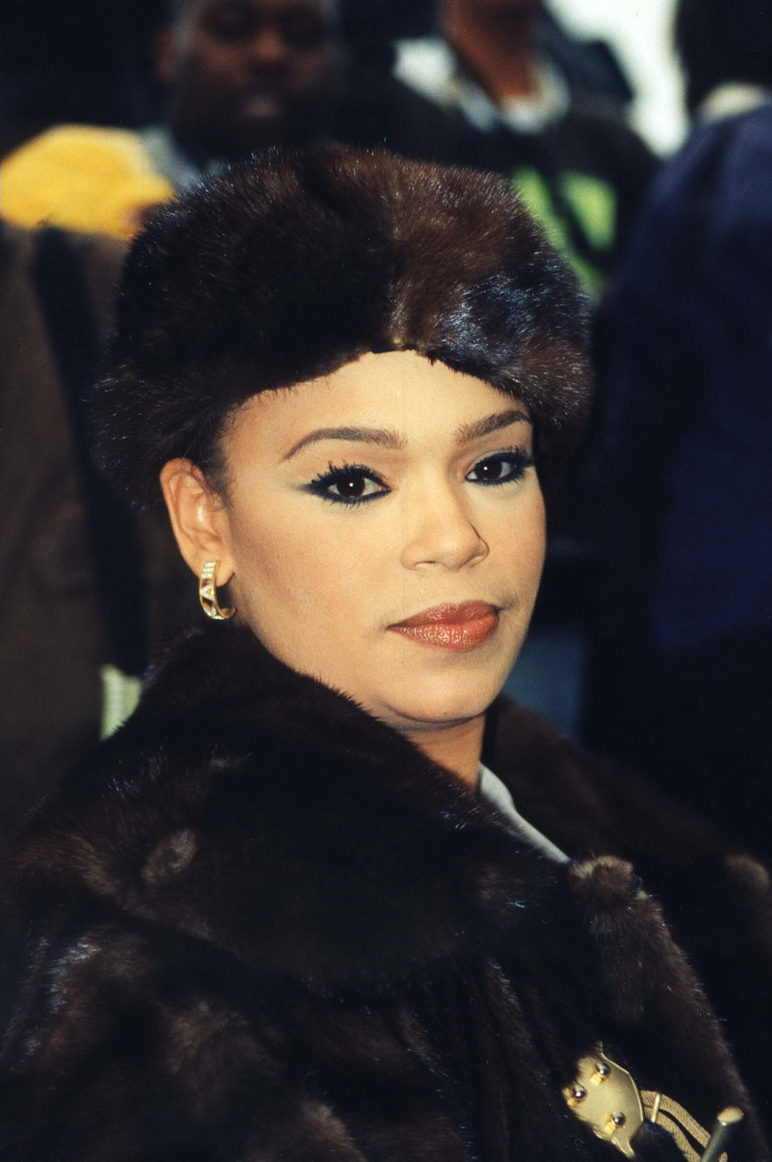 Faith Evans 1998 © copyright John Mathew Smith 2001